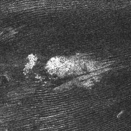 Arwen Colles on Titan. Radar image by Cassini, made during T08 flyby (October 28, 2005). Size of the image is 160×160 km, north is up.